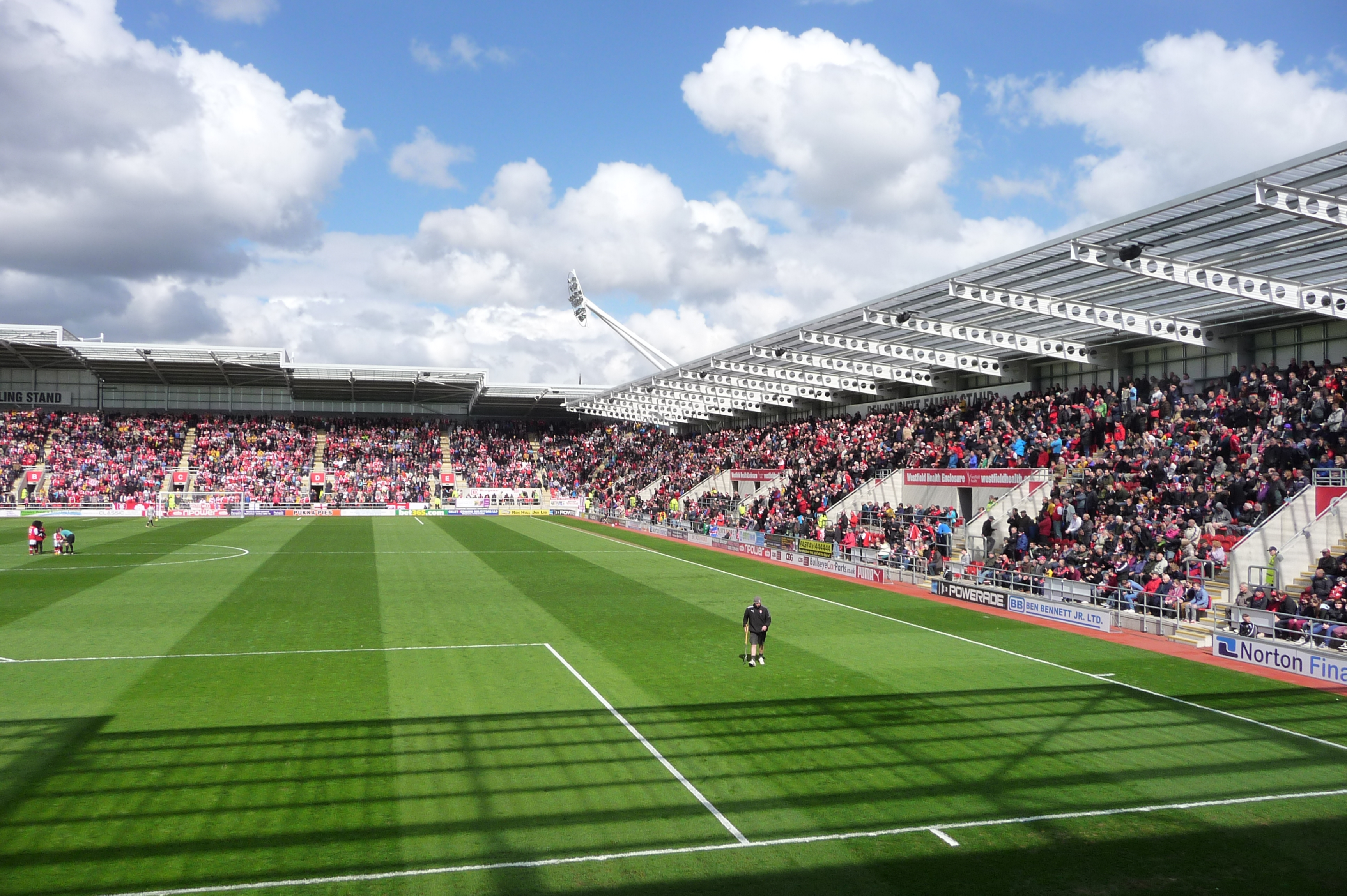 New York Stadium